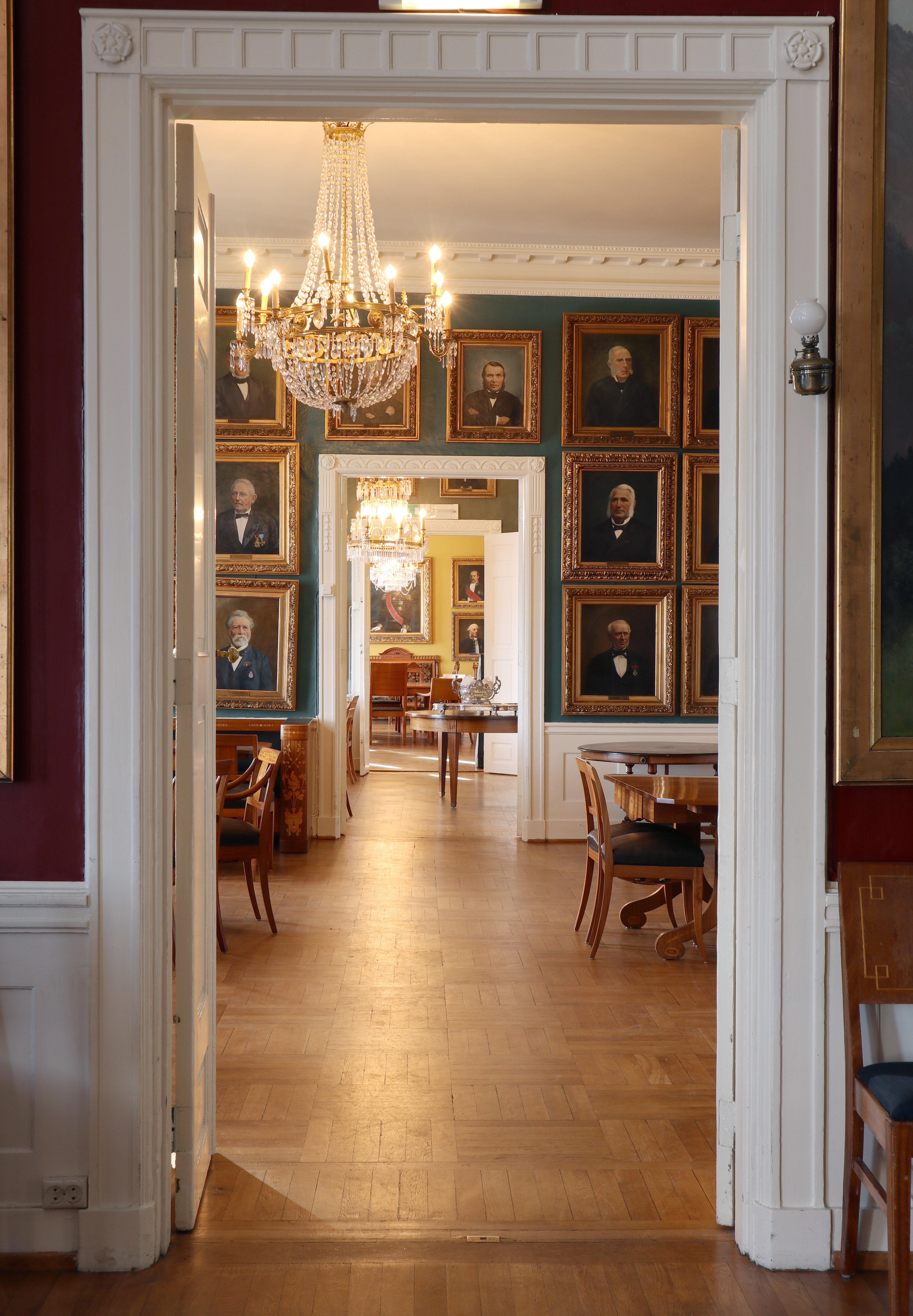 Doors, paintings, rooms, funiture